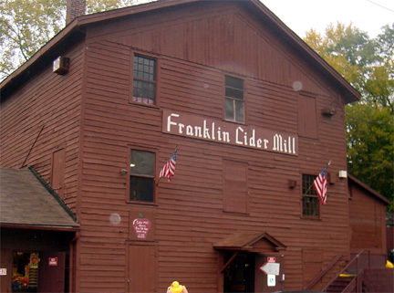 The Franklin Cider Mill near Franklin, Michigan.